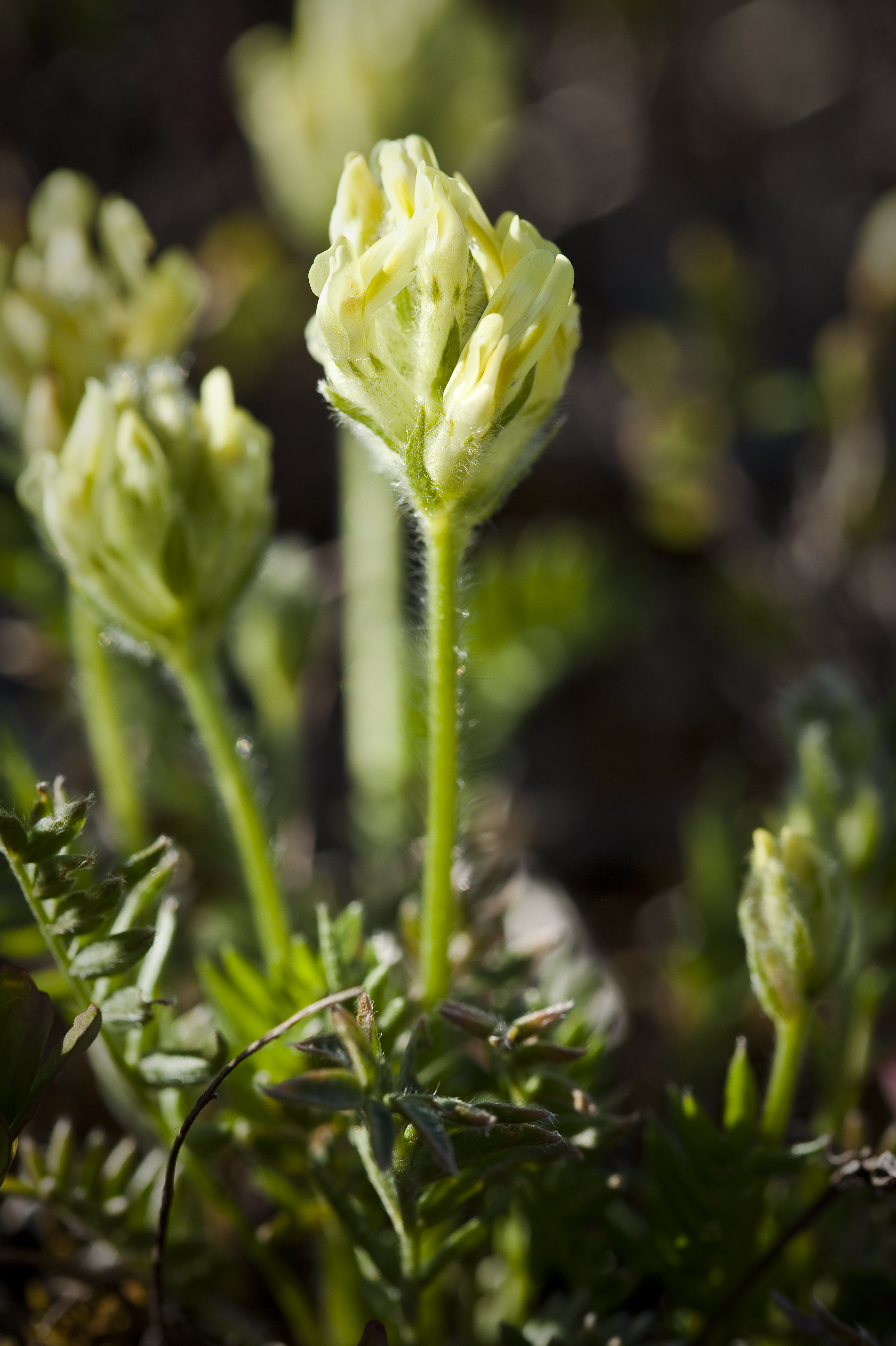 Oxytropis maydelliana, Denali National Park and Preserve, AK, USA